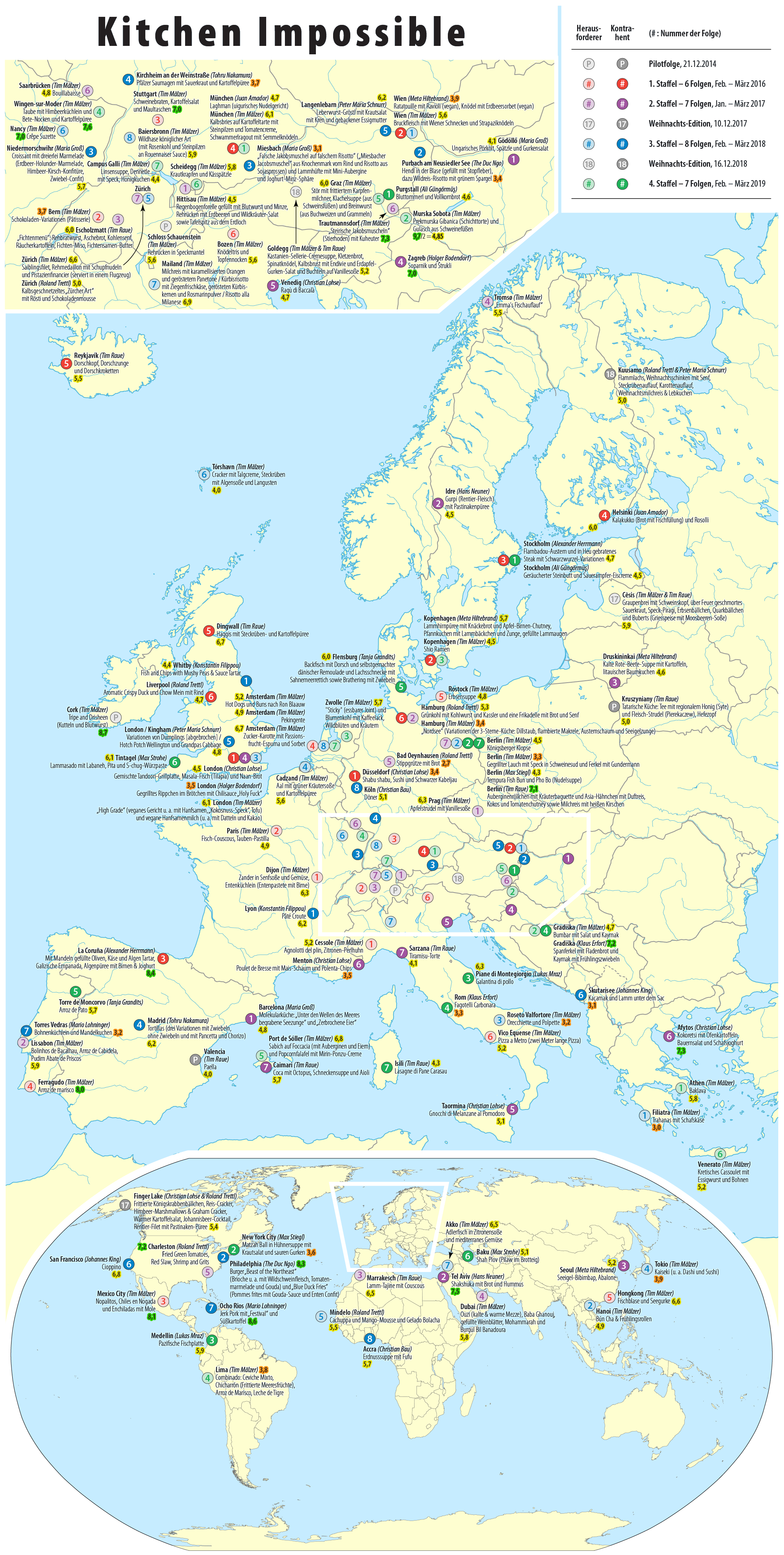 Map of locations of german TV-series Kitchen impossible